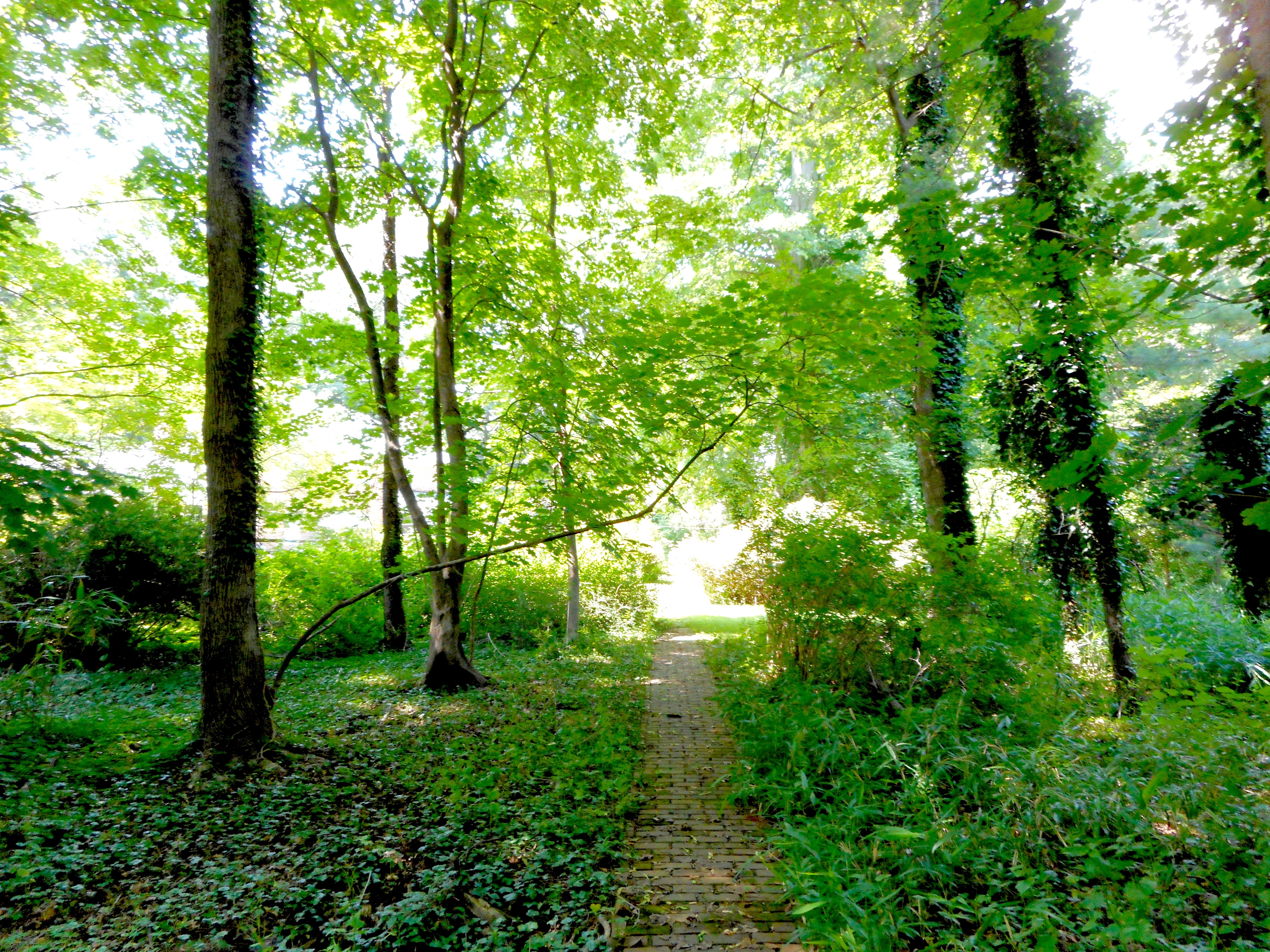 The brick path leading from the Wallingford train station to "Lindenshade" (1873, demolished 1940), Nether Providence Township, Delaware County, Pennsylvania.